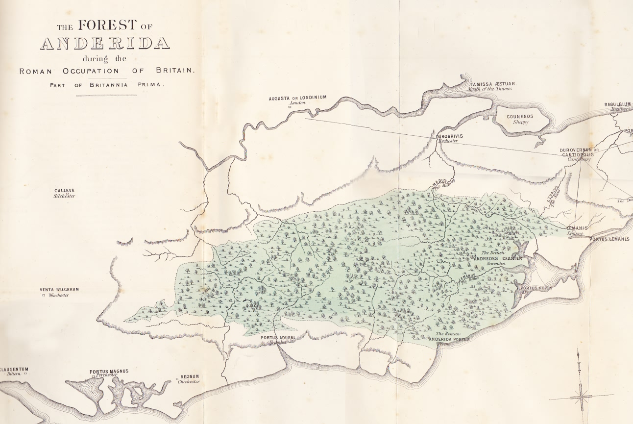 The Forest of Anderida during the Roman Occupation of Britain